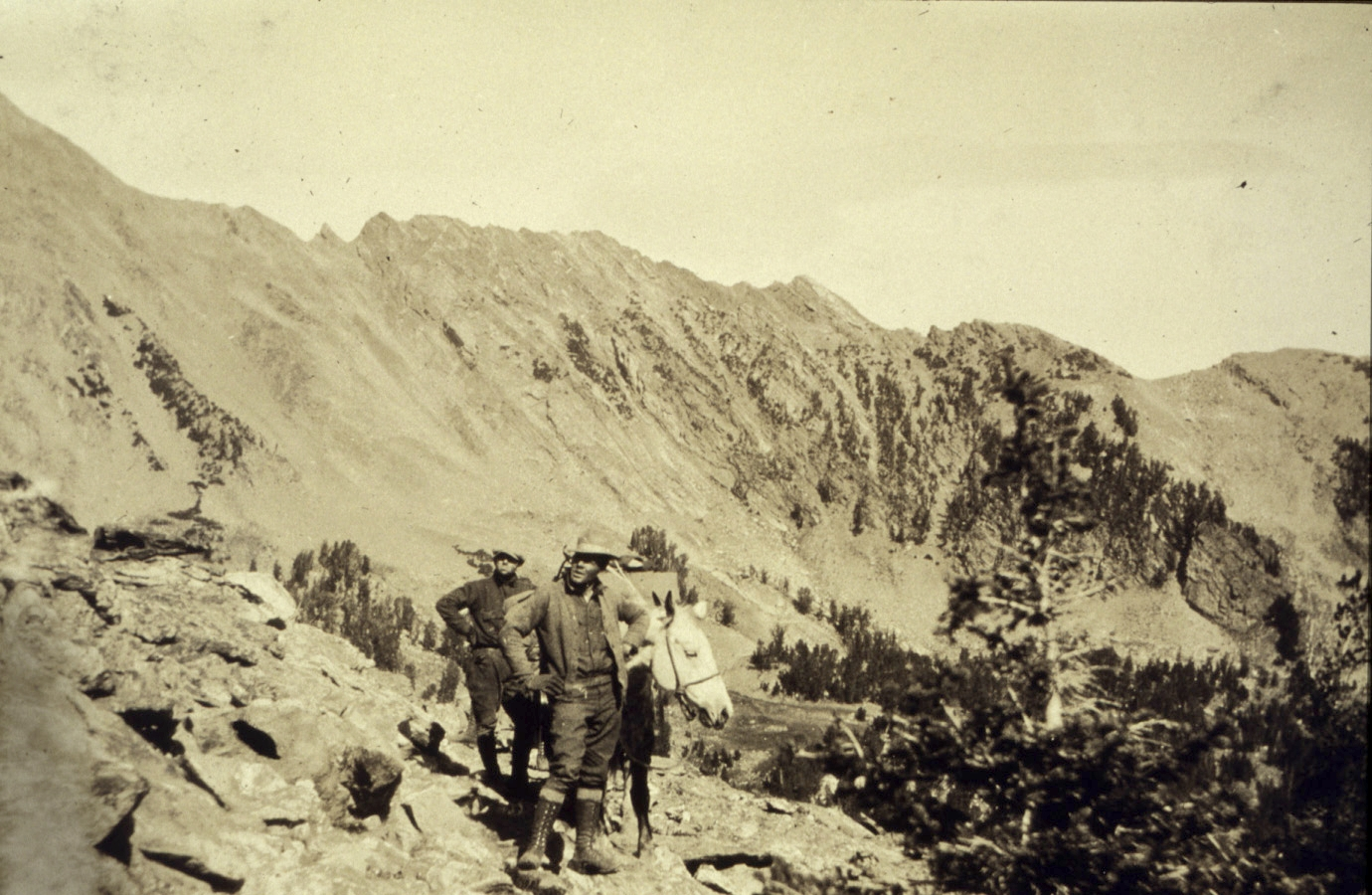 On the way to Gallatin Peak - high peak to left. Where do we go from here? Triangulation party of William M. Scaife. Montana, Gallatin Peak.